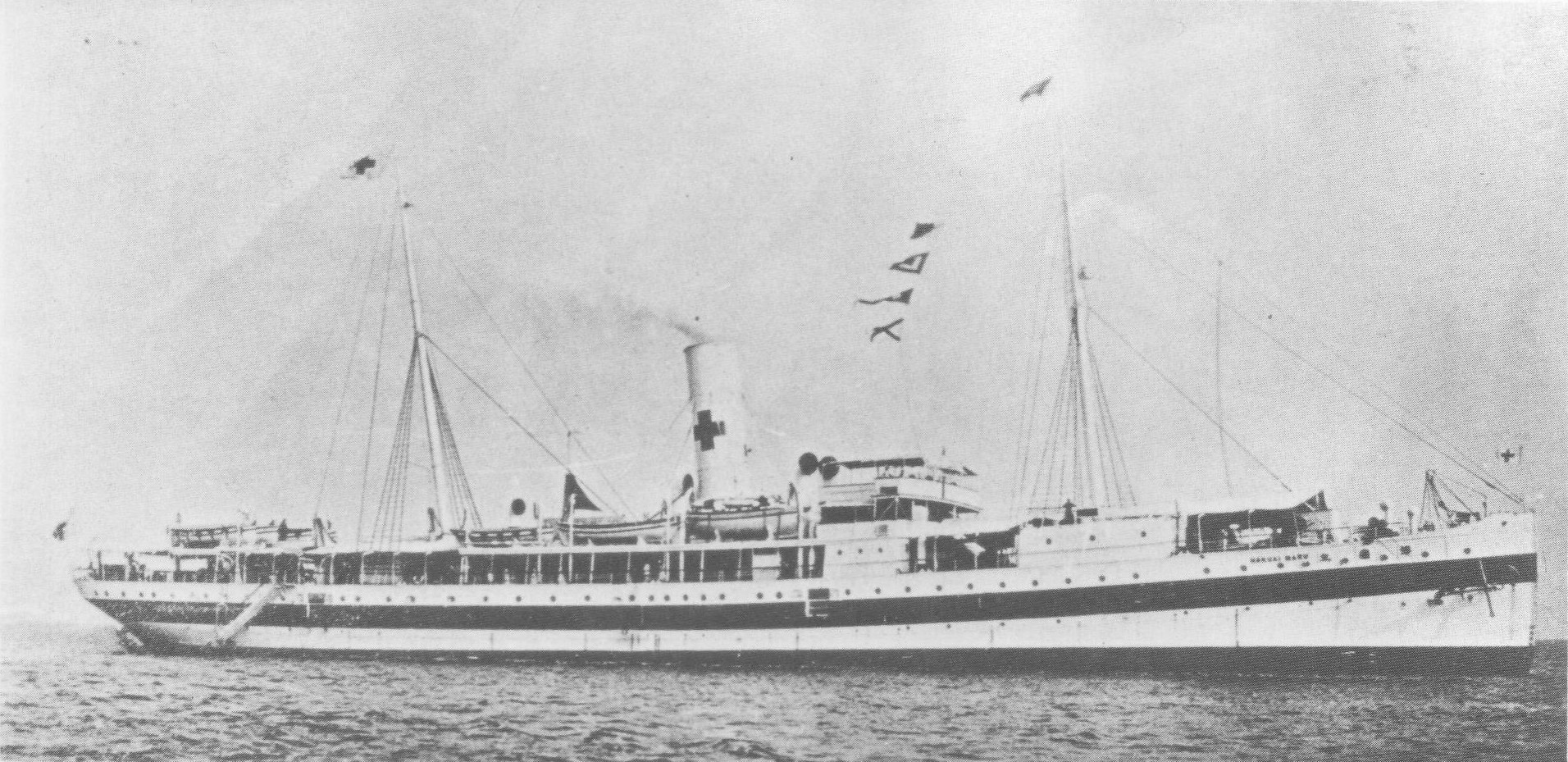 Hospital Ship "Hakuai Maru", Models of "Kanikōsen" is a novel by Takiji Kobayashi.